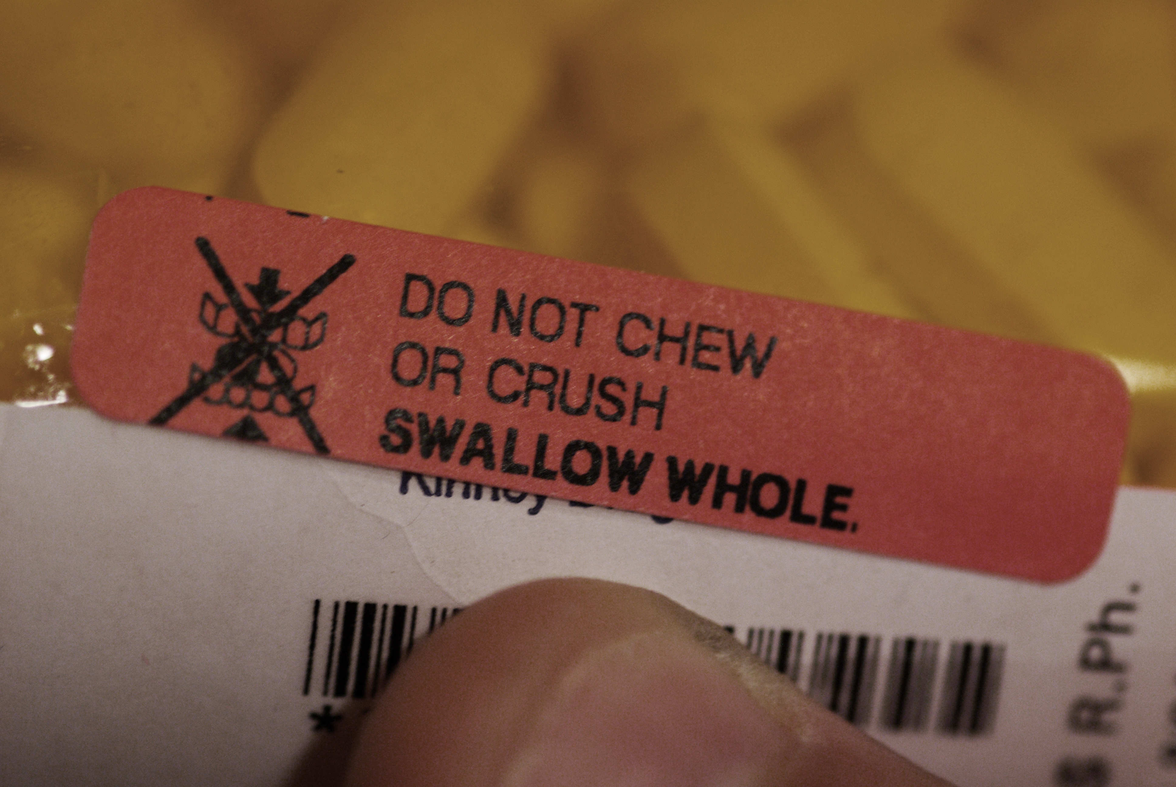 Swallow whole auxiliary label on prescription vial